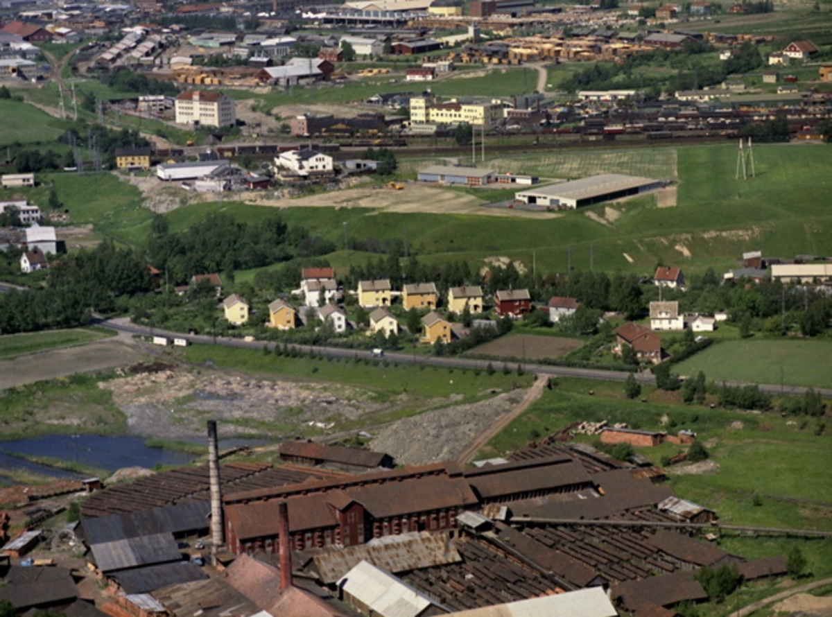 Former Alna brickyard in Strømsveien, Oslo, Norway. Aerial photograph.